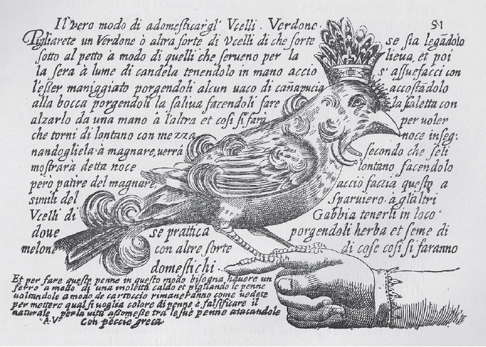 Picture from Antonio Valli da Todi's book on bird keeping.